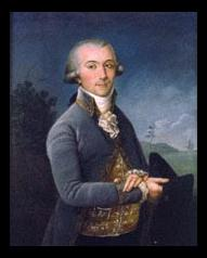 Pierre Laclede (Liguest). Oil on canvas, ca. 1810. Acc.#1869.1.2. & (side) Marie